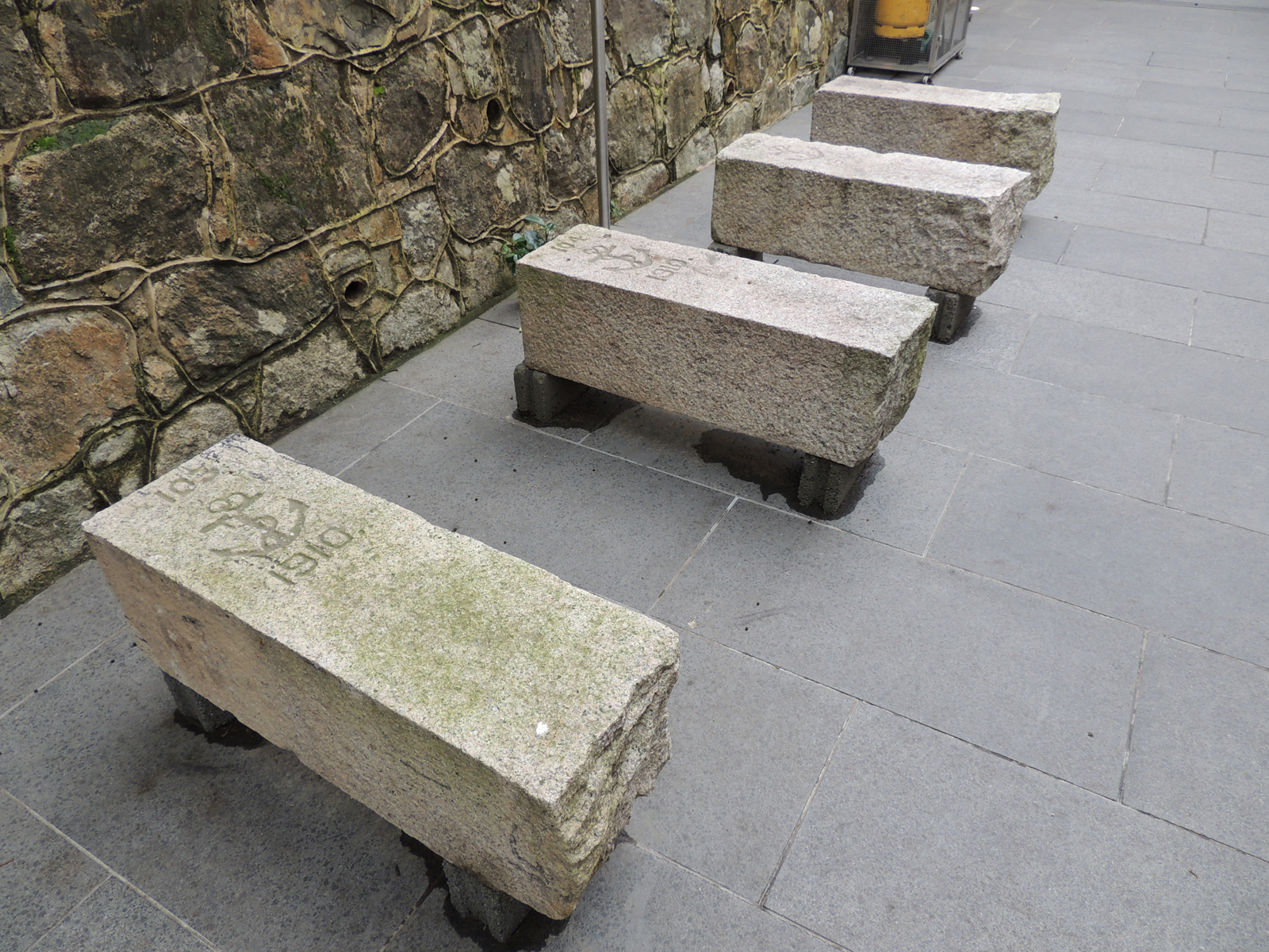 Navy Boundary Stones, Former Explosives Magazine of the Old Victoria Barracks